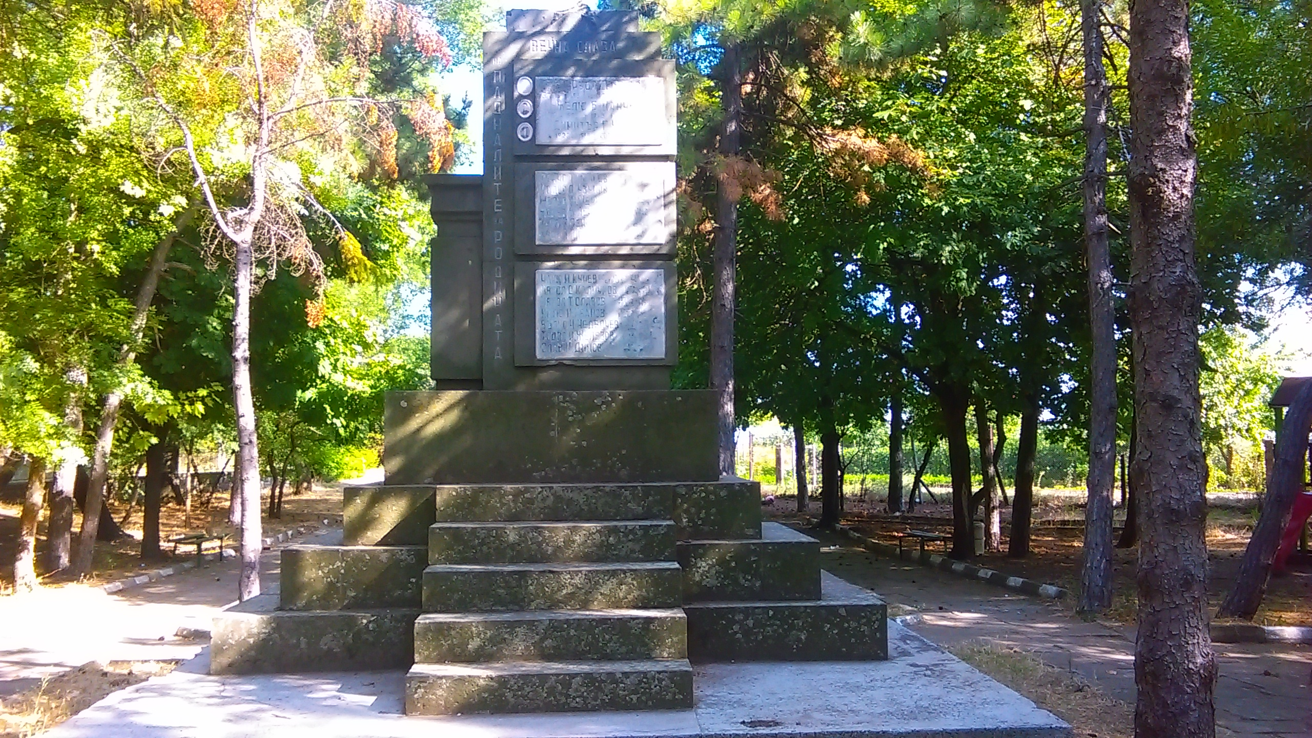 Soldiers' memorial in Valchin village, Bulgaria